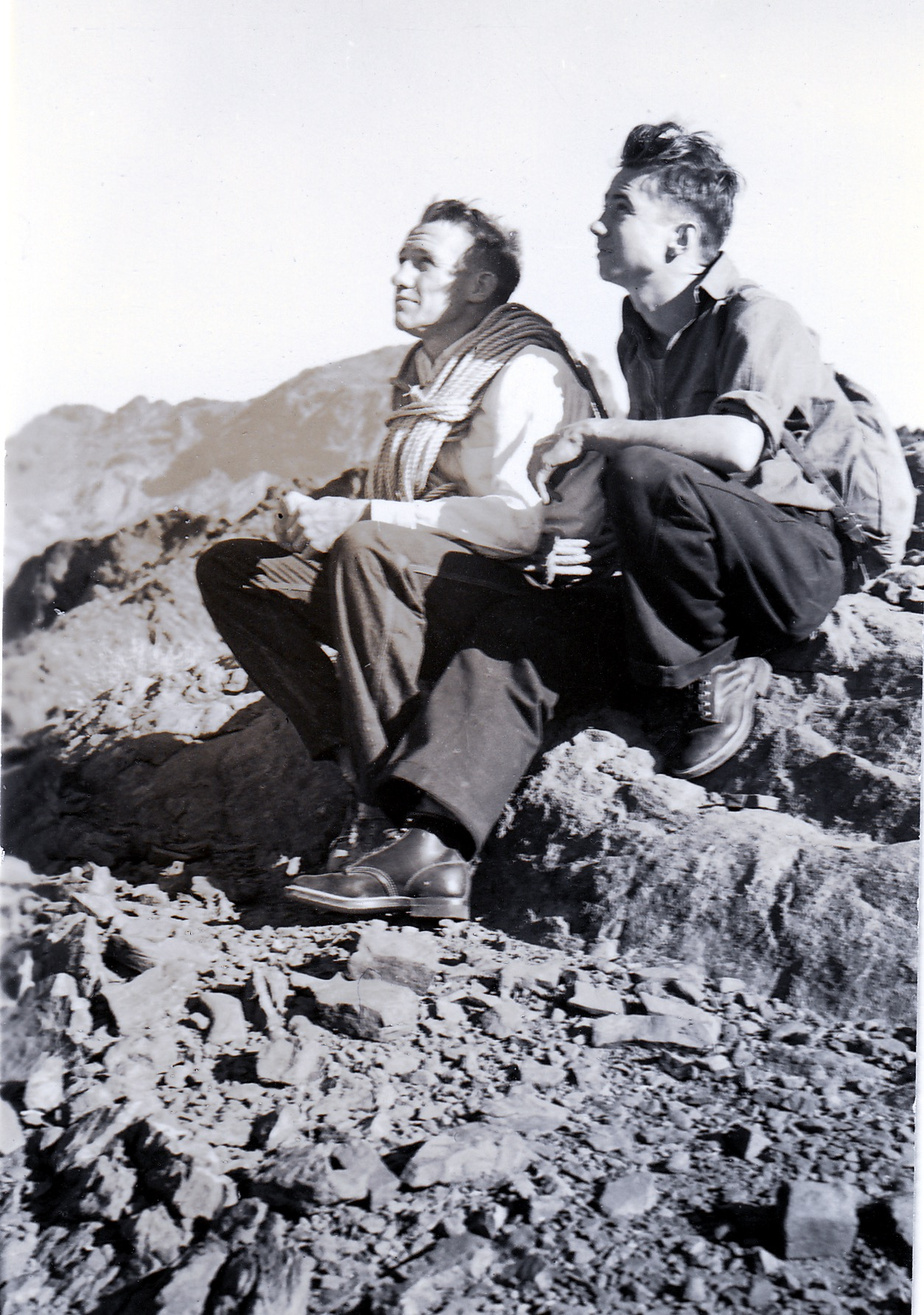 Photo taken during Robert K. Brinton and Glen Dawson's unsuccessful attempt to climb Monument Peak, October 1937